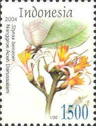 Stamps of Indonesia